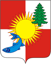 Tomarinsky rayon (Sakhalin oblast), coat of arms